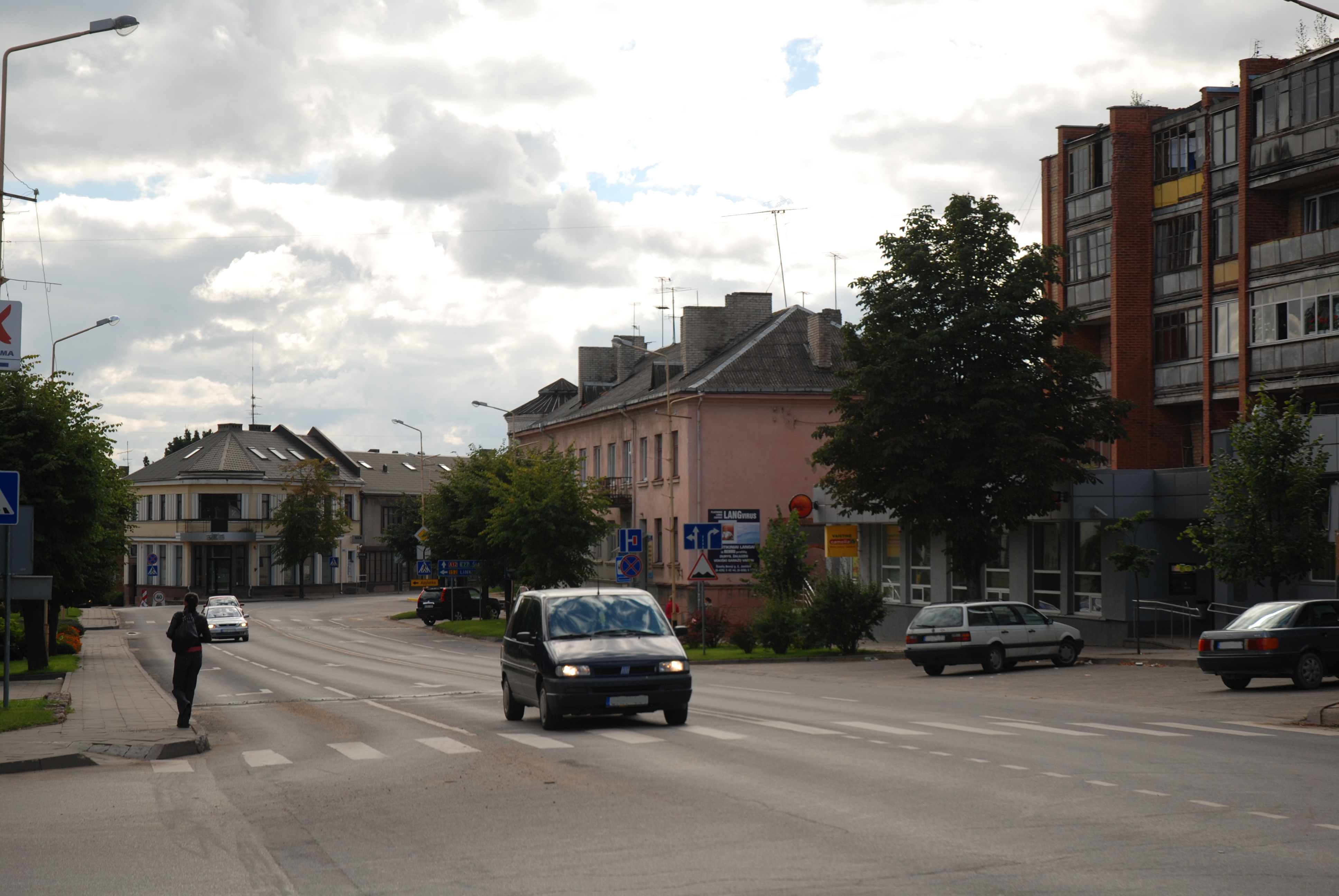 The centre of Joniškis